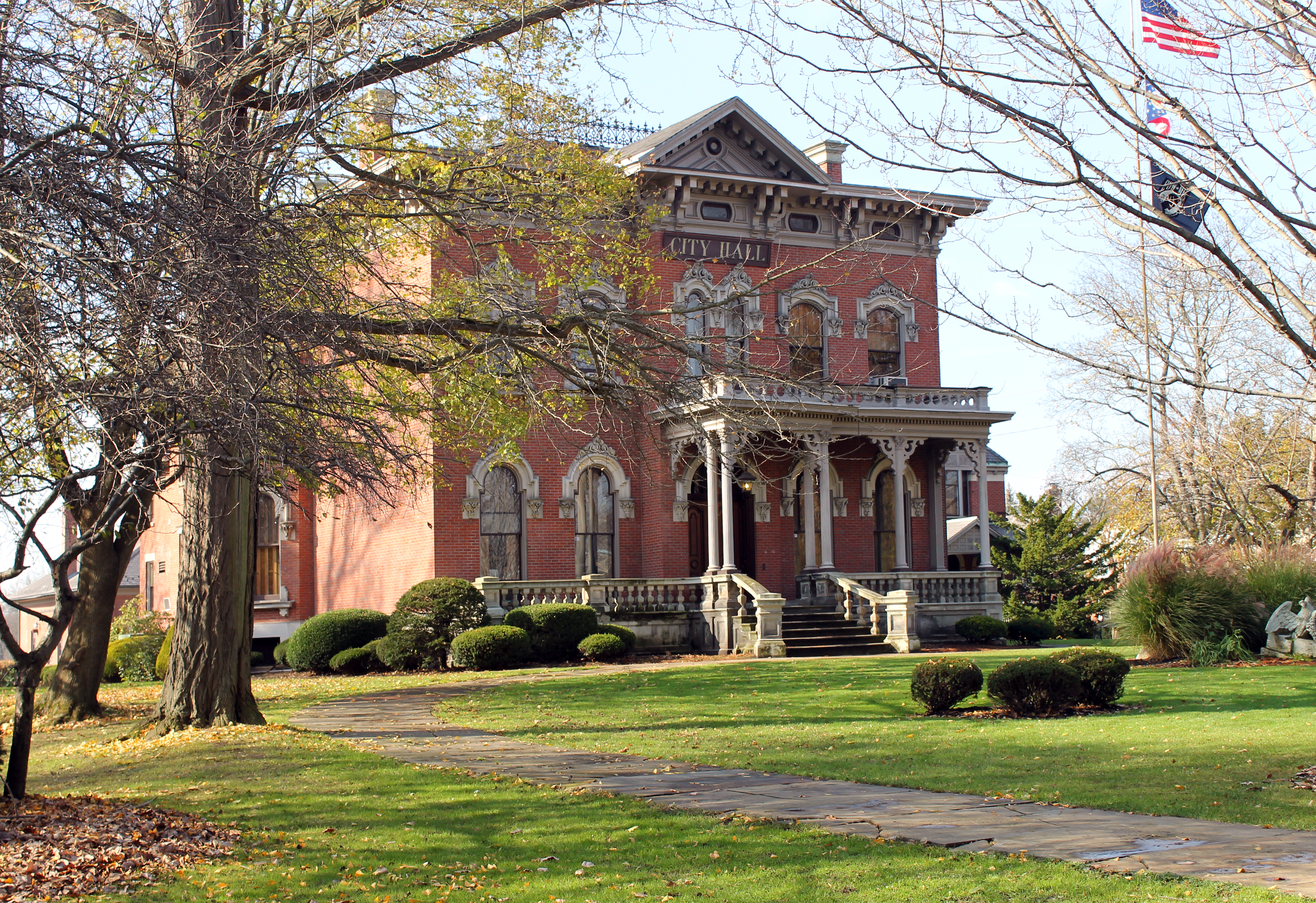 Perkins Mansion, in Warren, Ohio, United States. This building is used as Warren City Hall since 1934.